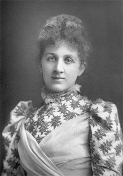 Photo of Liza Lehmann during her concert career in the 1880s.